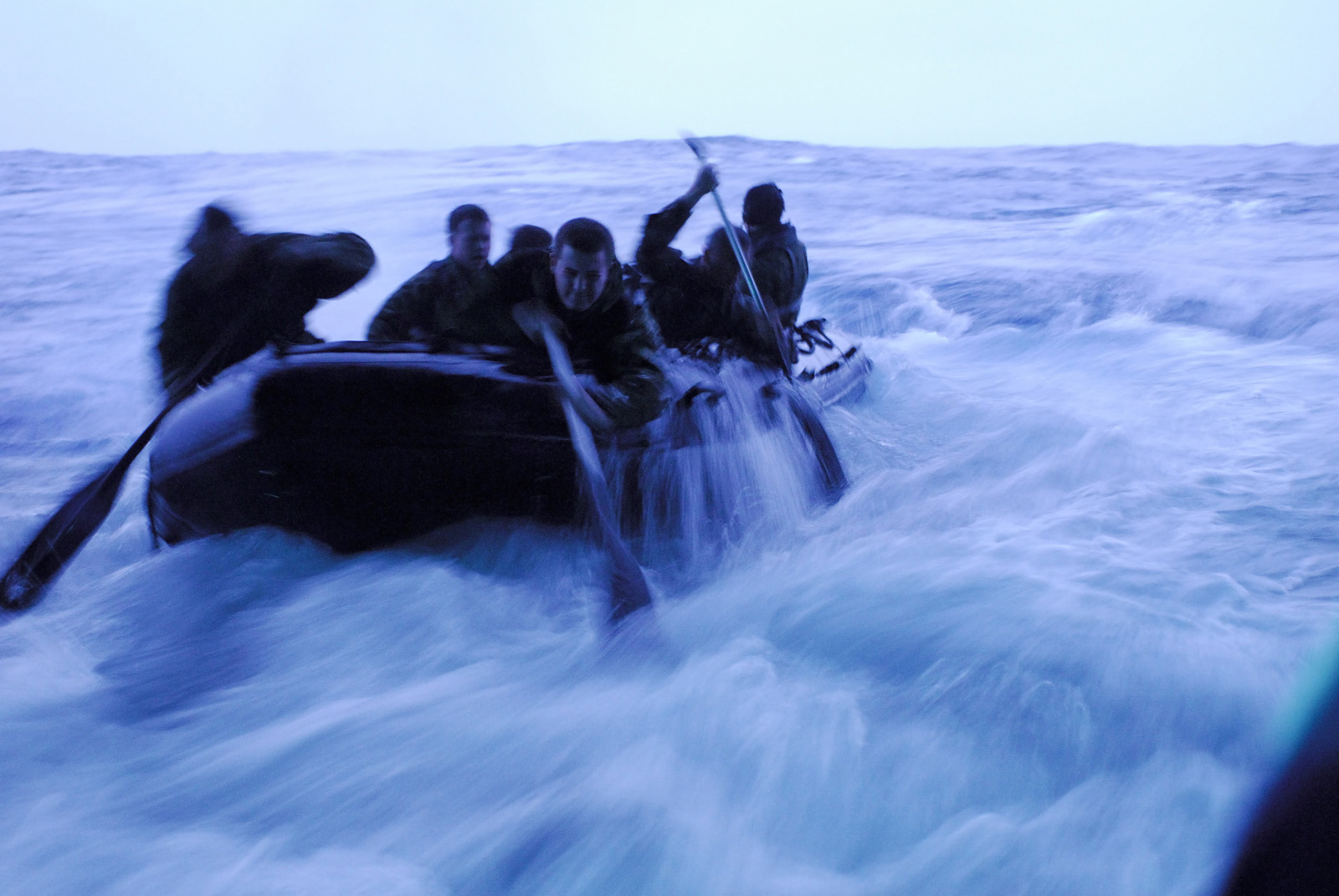 U.S. Marines assigned to an amphibious recon platoon paddle their combat rubber raiding craft away from the stern gate of the amphibious assault ship USS Essex (LHD 2) during amphibious training exercises off the coast of Okinawa, Japan, on Feb. 9, 2008. The Marines are attached to the 31st Marine Expeditionary Unit.